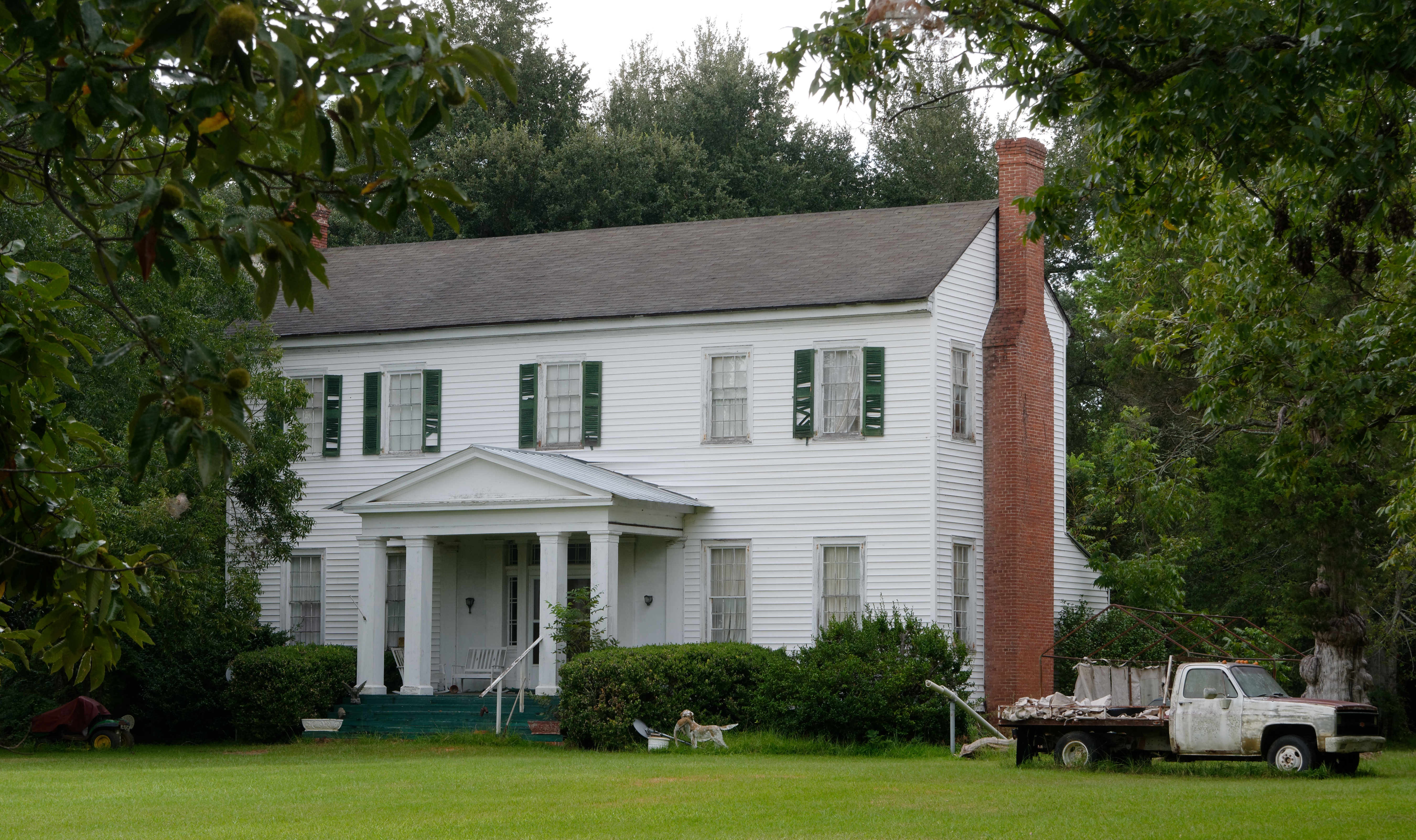 Sapp Plantation, Sardis, Georgia, US Location dec}33.00119|-81.81849